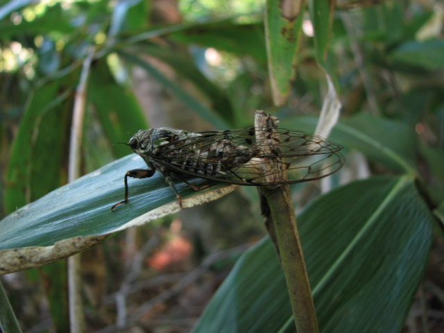 Terpnosia vacua at Komad-wetland, Fukushima pref, Japan